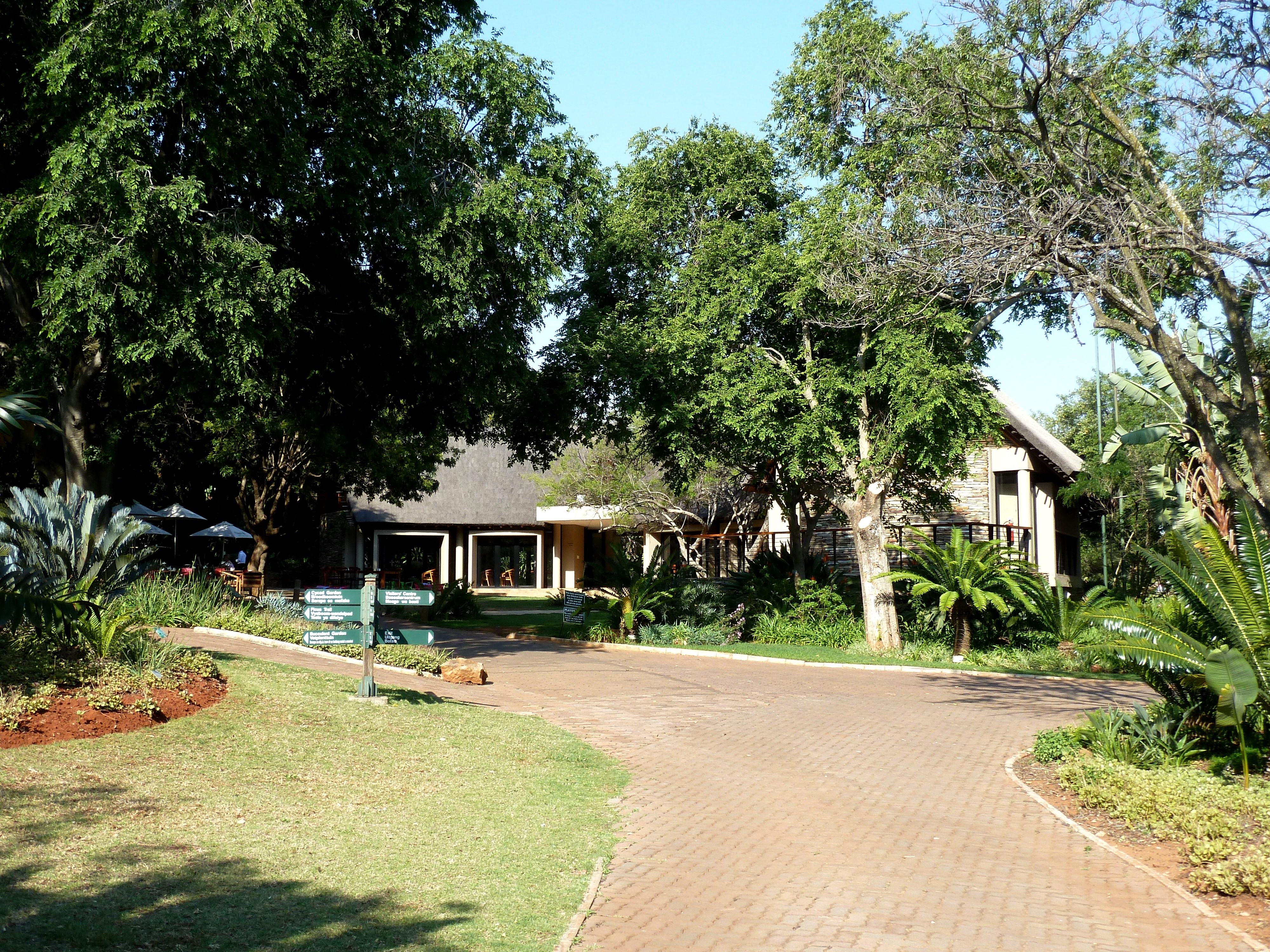 Tea garden and function or conference facility at the Pretoria National Botanical Garden, South Africa